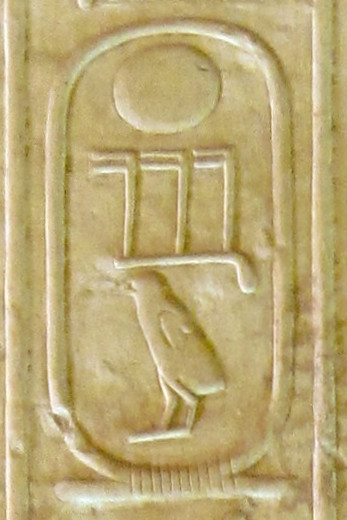 Cartouche 27, Abydos King List. Temple of Seti I, Abydos, Egypt